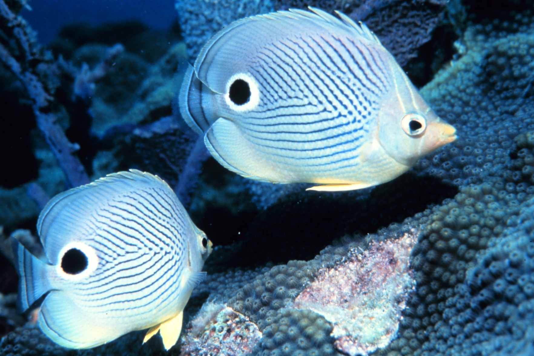 Foureye butterflyfish (Chaetodon capistratus)